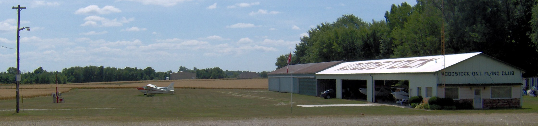 Woodstock Ontario flying club airport, street view